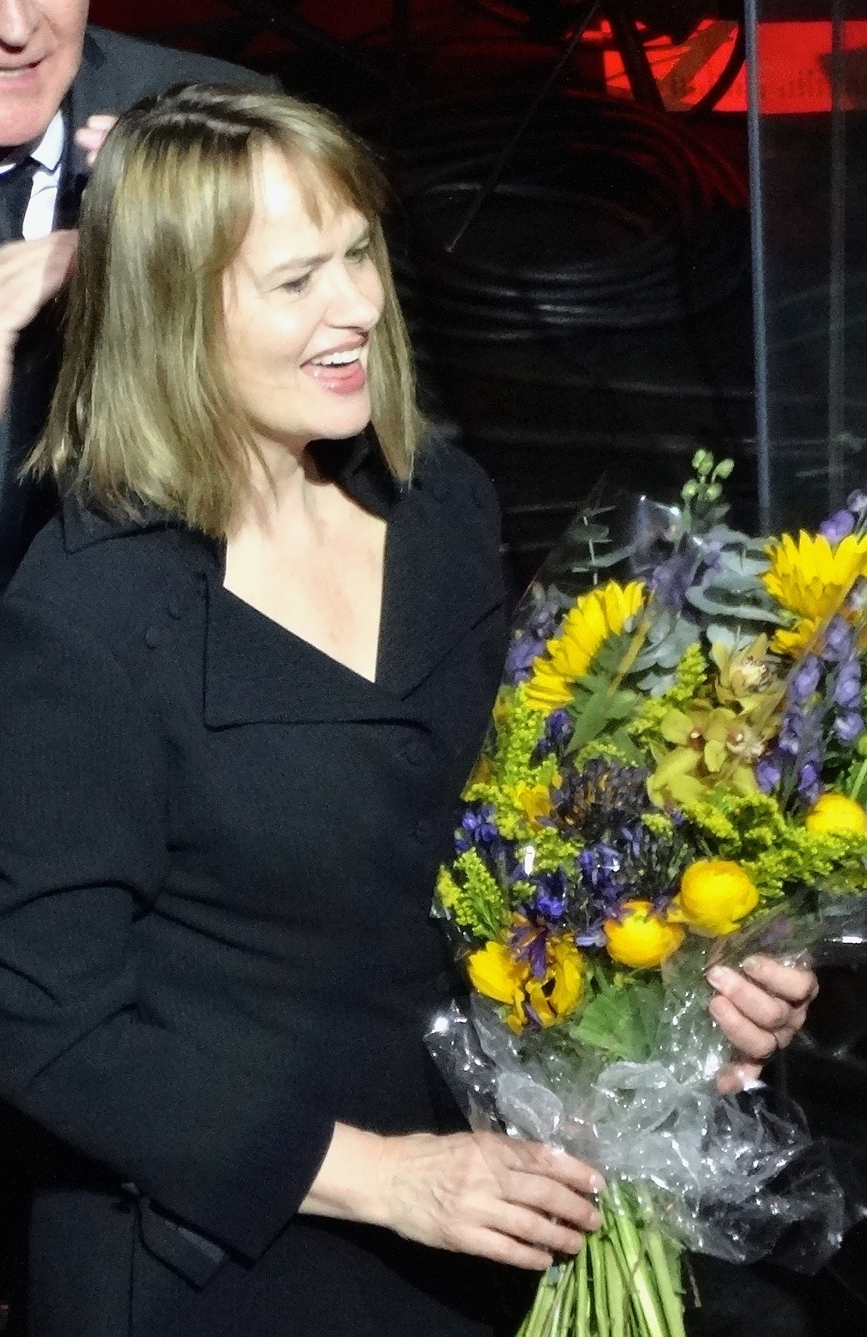 Anne Dudley on March 30, 2014